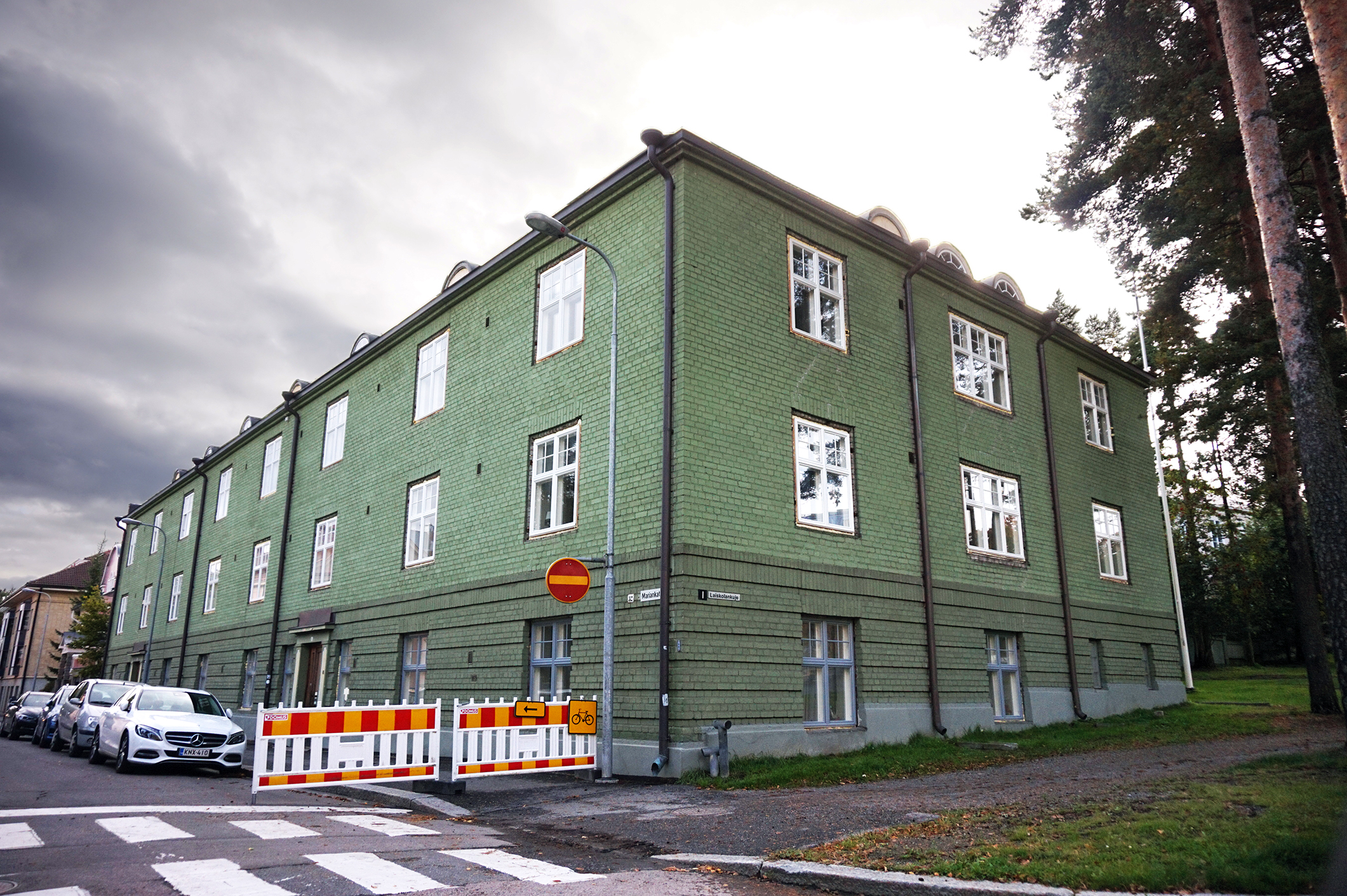 Mariankatu 32, Tampere.This photograph was taken with a Sony ILCE-5000